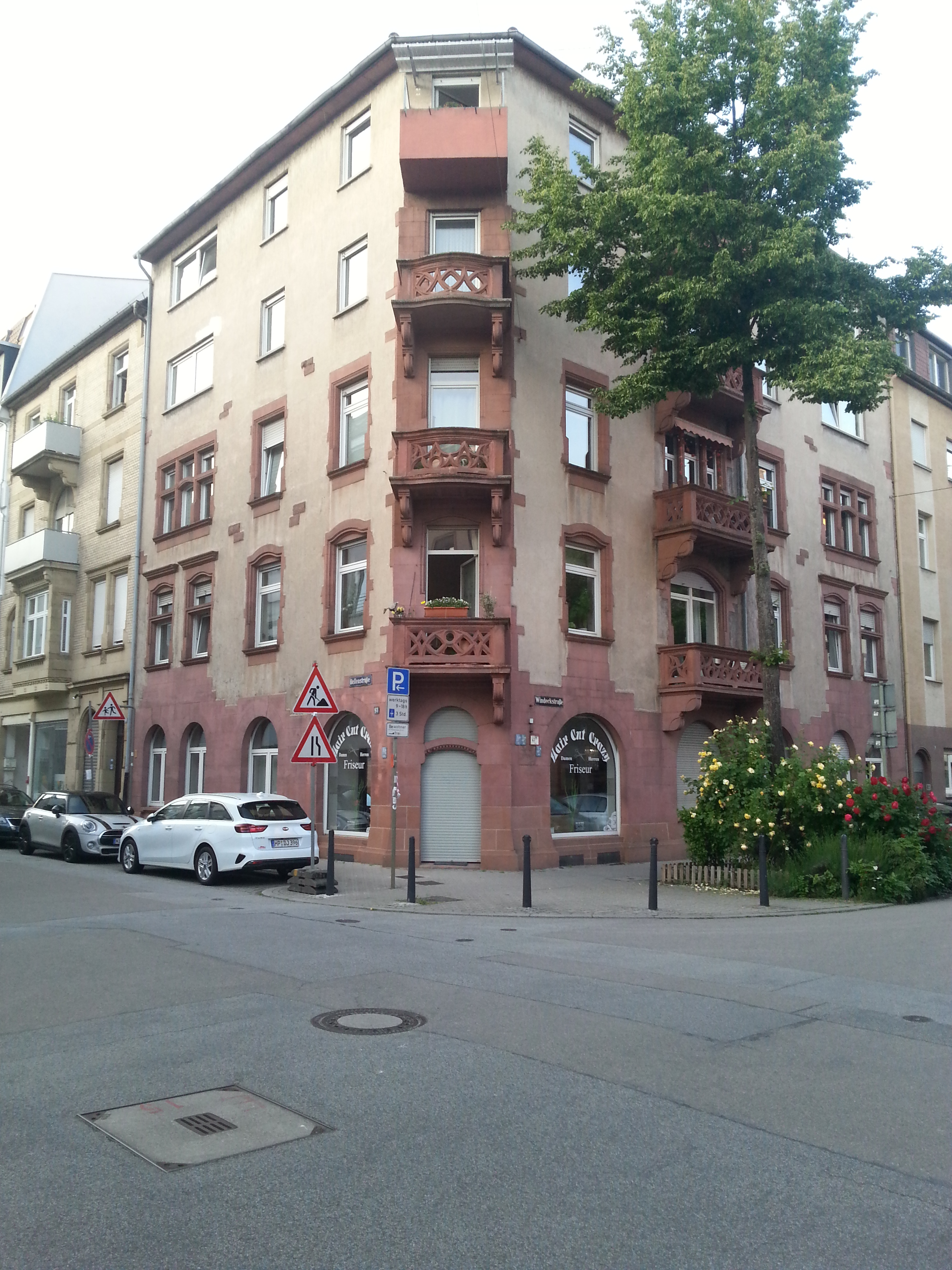 Windeckstraße 29 in Mannheim, district Lindenhof. Rudolf Höß (1901–1947), the future SS commandant of the concentration camp Auschwitz, lived with his mother and his siblings on the third floor from 1915 to 1917. To the south of the house, there is the Catholic parish church St. Josef.